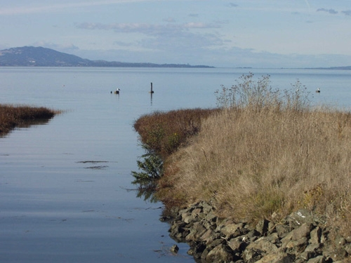 Breuner Marsh — on San Pablo Bay in Richmond. Located within Alameda County in the East San Francisco Bay Area, California. Part of the East Bay Regional Park District (since c. 2007).